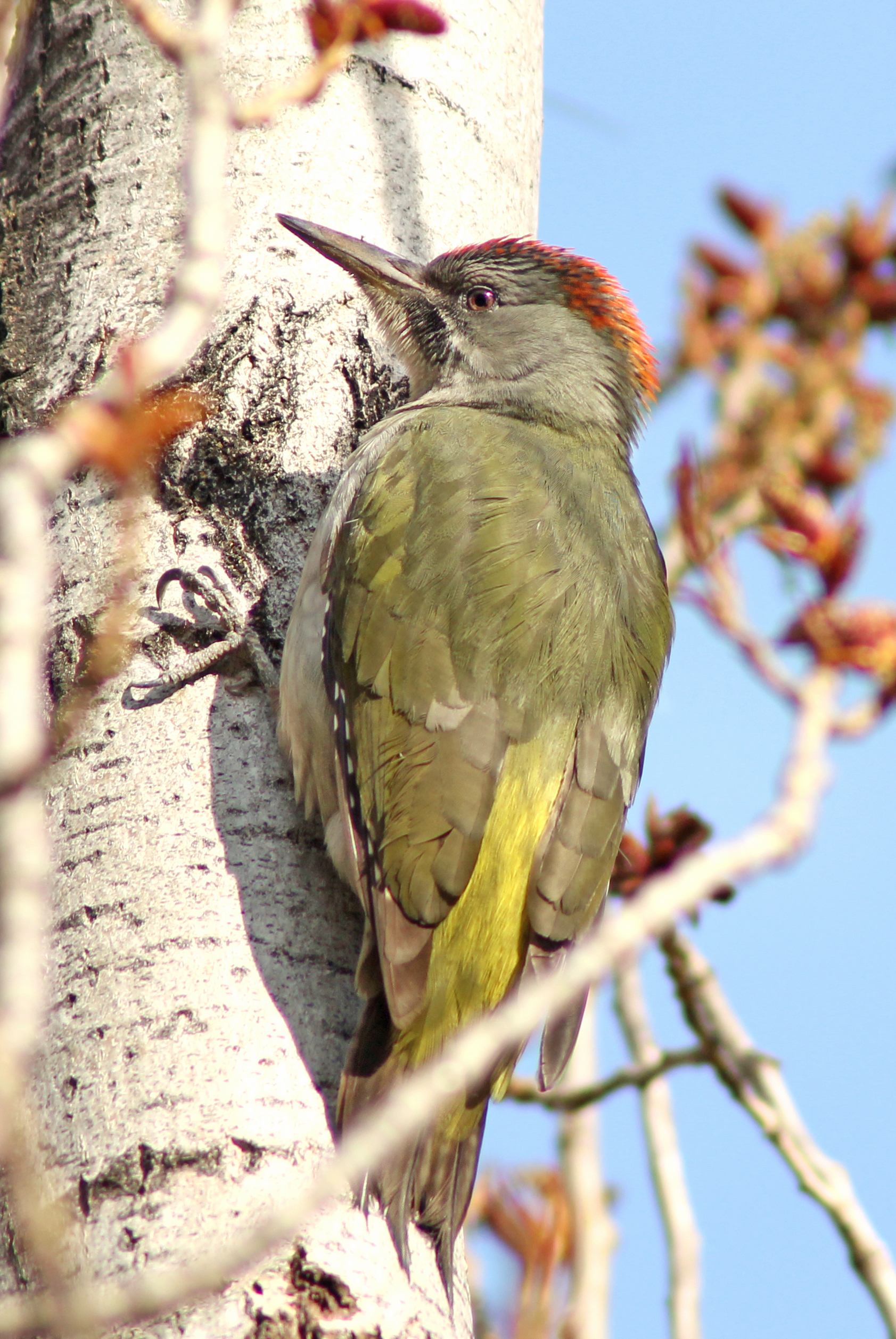 A female Iberian Woodpecker (Picus sharpei) in Madrid (Spain).